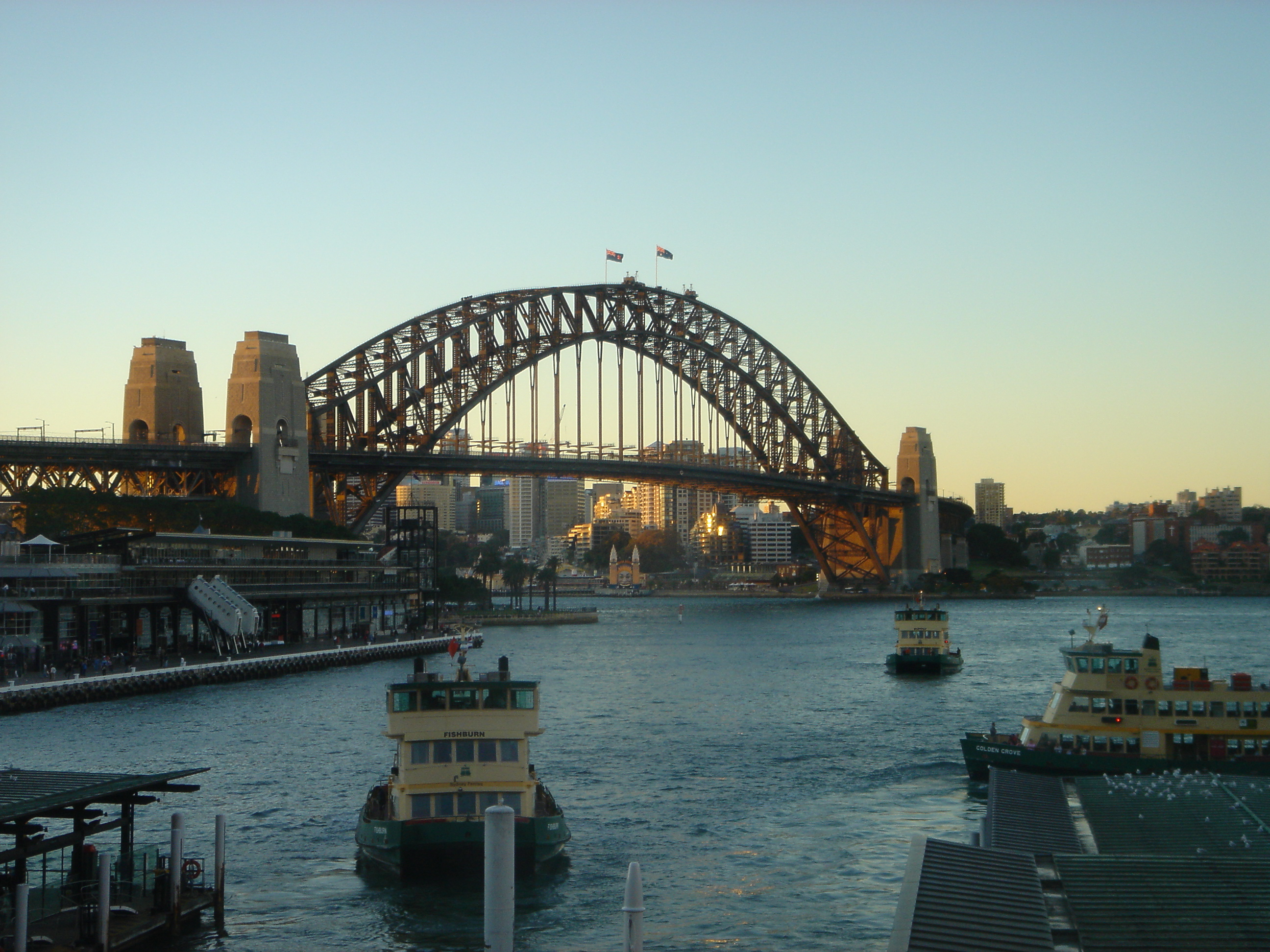 Sydney Harbour Bridge, New South Wales